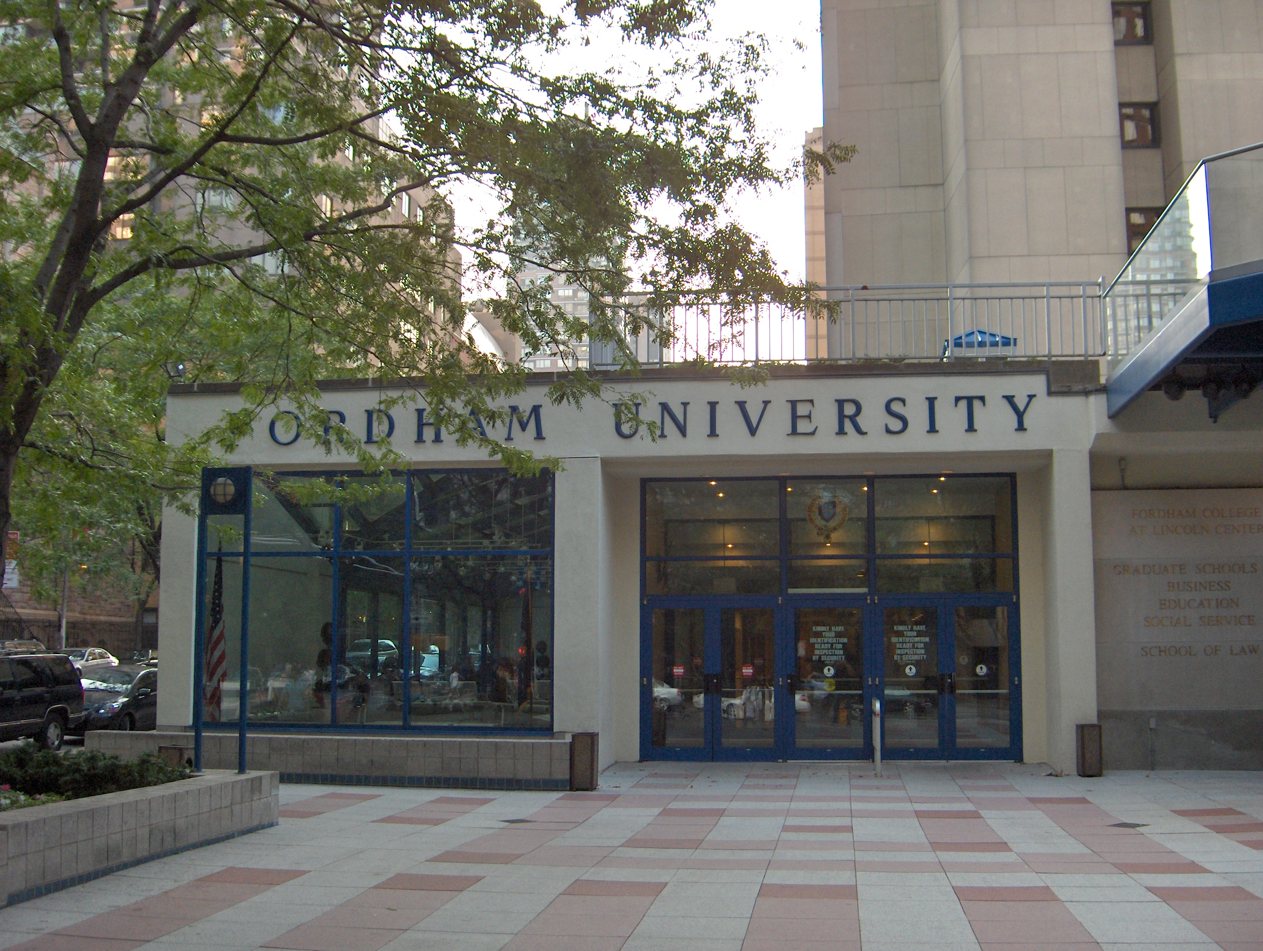 Fordham University at Lincoln Center